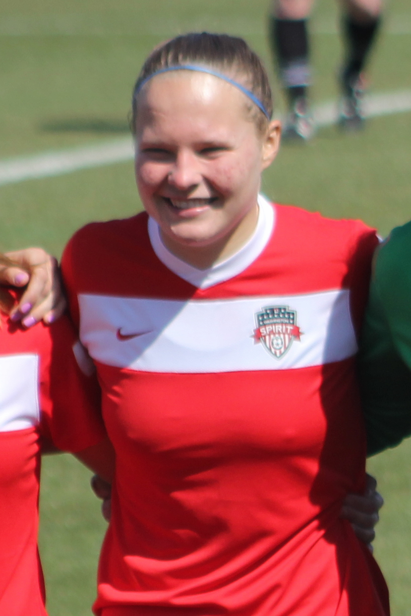 Casey Berrier (Washington Spirit)